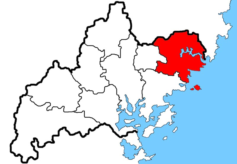 The map of Fuding city, Ningde